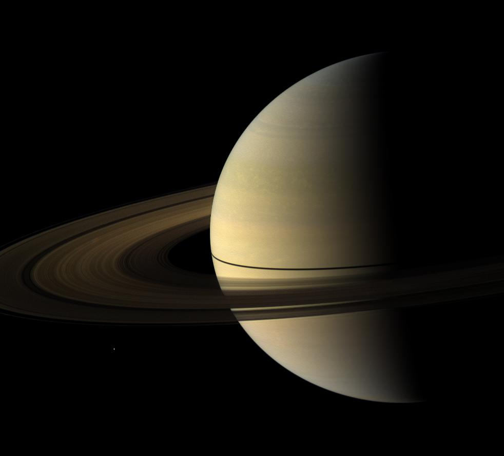 Cassini photographed this natural-color picture of Saturn and Mimas. Mimas (approx. 396 km, or 246 miles, wide) is the tiny white dot located in in the lower left of the image. To improve visibility in this photograph, both Mimas and Saturn's rings appear brighter than normal. Cassini photographed this view while facing the northern sunlit side of Saturn's rings, at approximately a 10 degree angle above the ringplane. This photograph was taken on 4 September 2009 at a distance of approximately 2.7 million kilometers (1.7 million miles) from Saturn. Sun-Saturn-spacecraft angle (phase angle) is 92 degrees. Scale: 156 kilometers (97 miles) per pixel. Post-Equinox Color: PIA11613 (tiff size = 2.623 MB, jpeg size = 30.24 kB), Cassini–Huygens mission, Cassini Orbiter photograph, Imaging Science Subsystem - Wide Angle instrument, 982 samples x 889 lines in size, produced by Cassini Imaging Team, primary data set located at Cassini